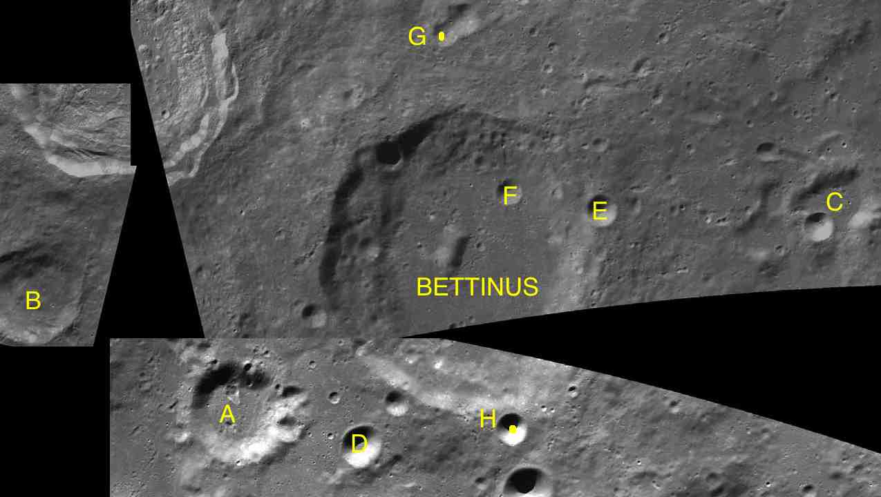 Parts of the charts LAC-124,LAC-125, LAC-136 used for the presentation